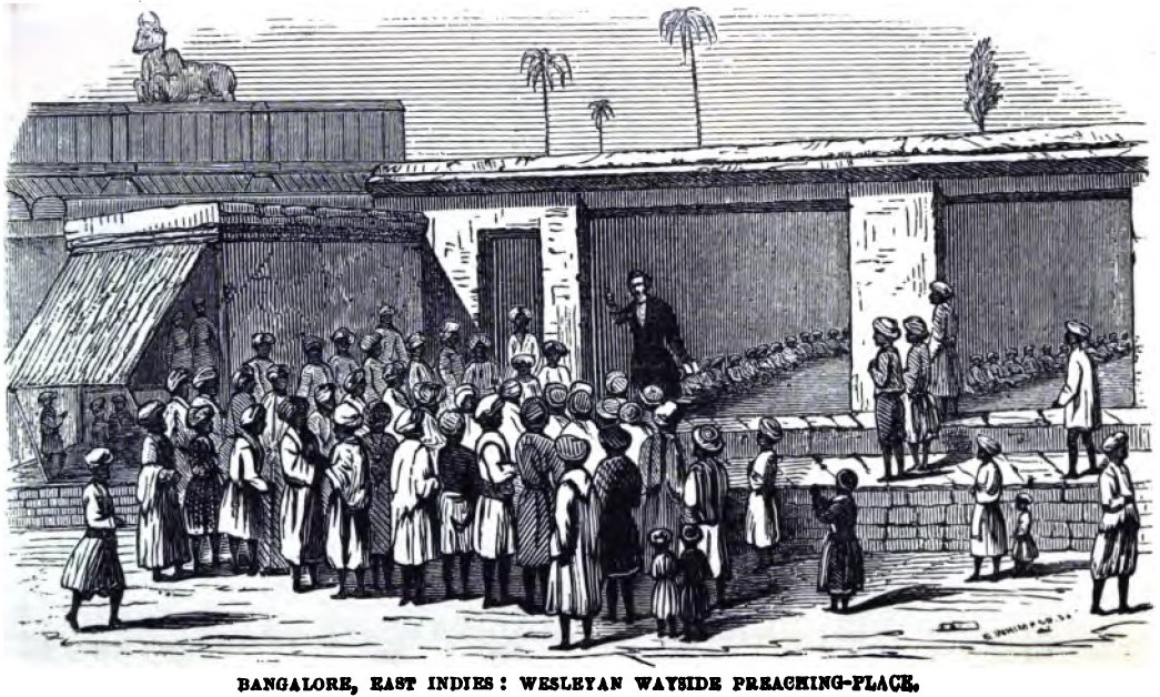 Bangalore, East Indies - Wesleyan Wayside Preaching-Place (Thomas Hodson, p.72, July 1857)